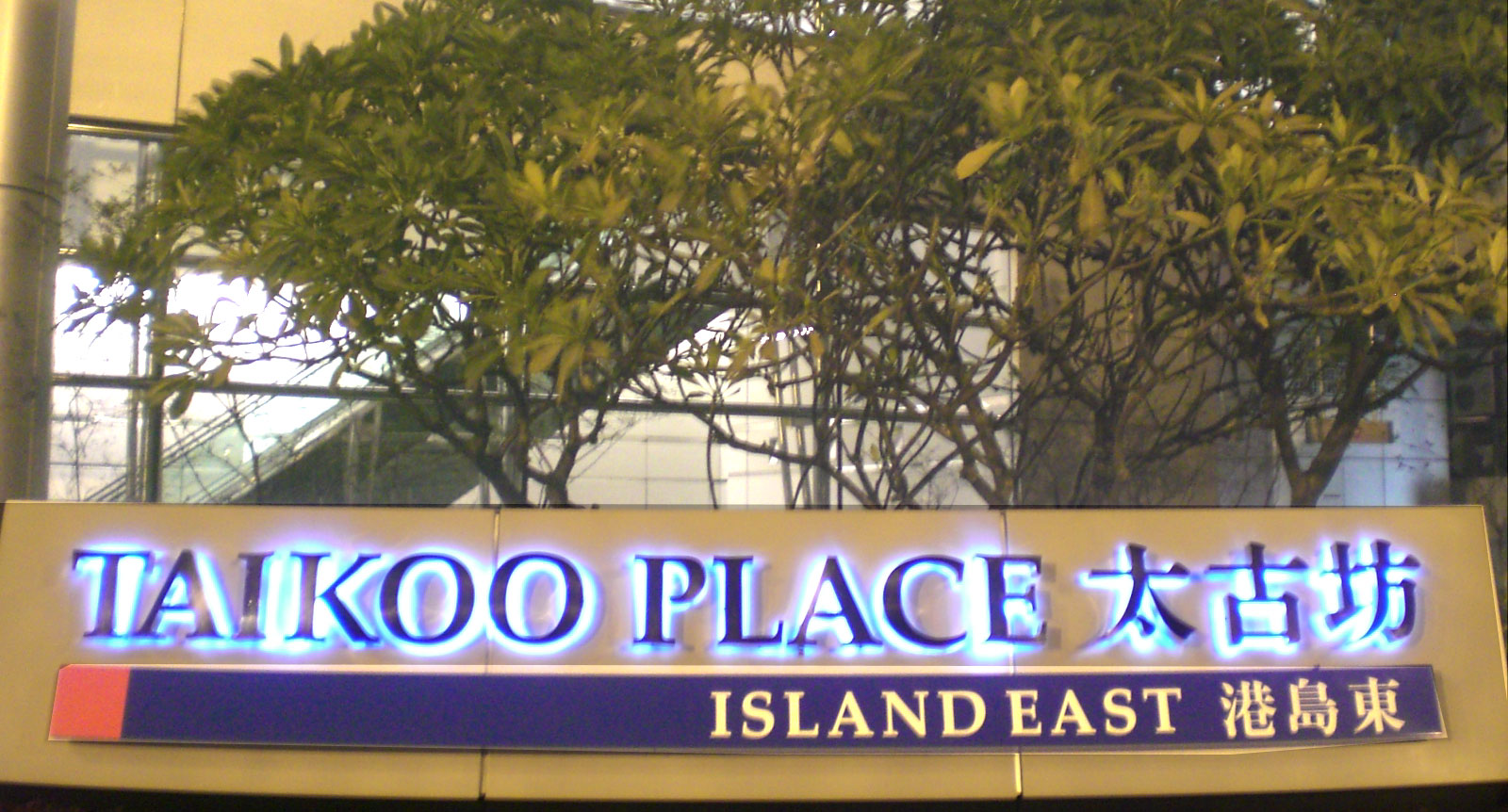 太古坊 港島東 (地產物業) TaiKoo Place, Island East, Hong Kong.